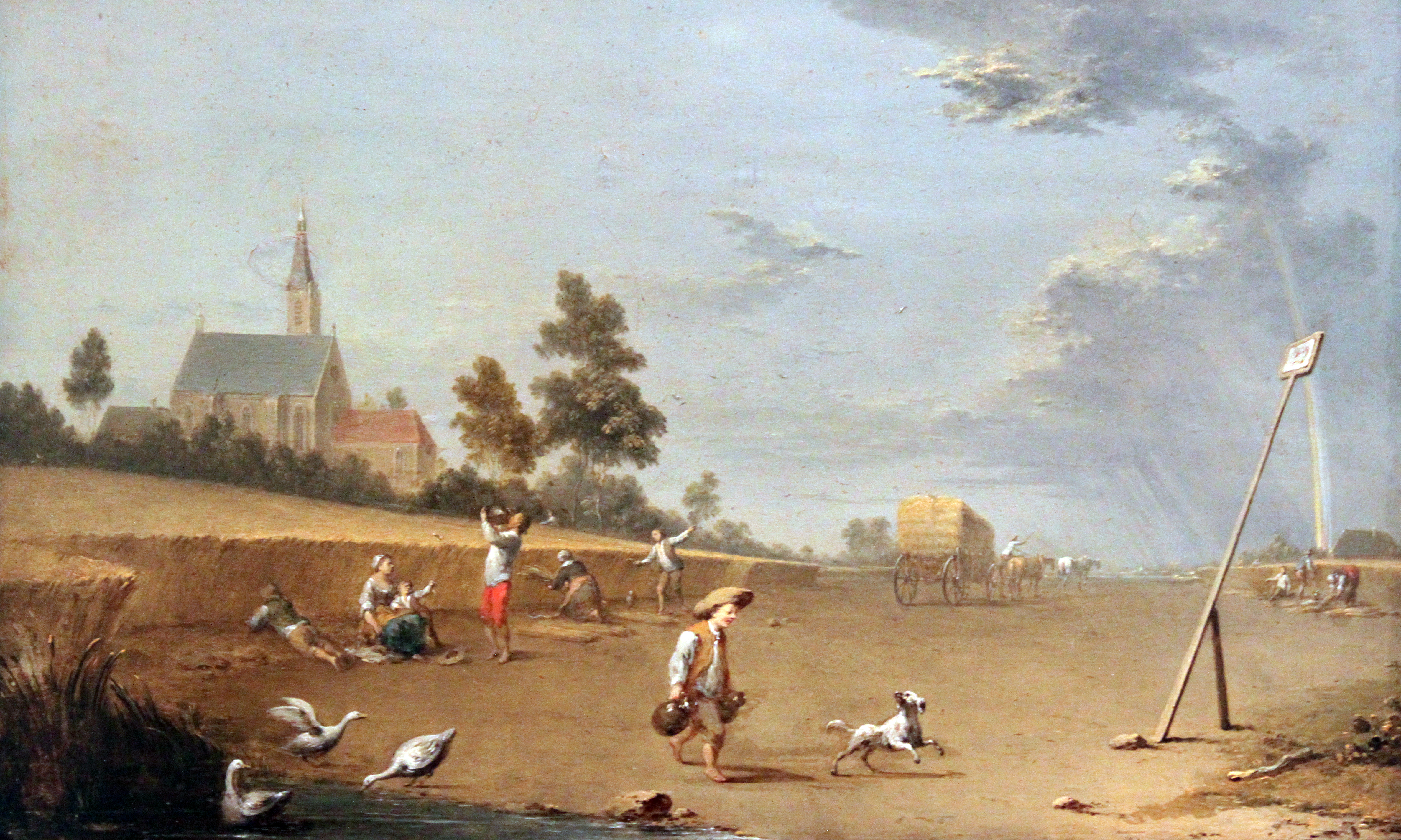 The Harvest